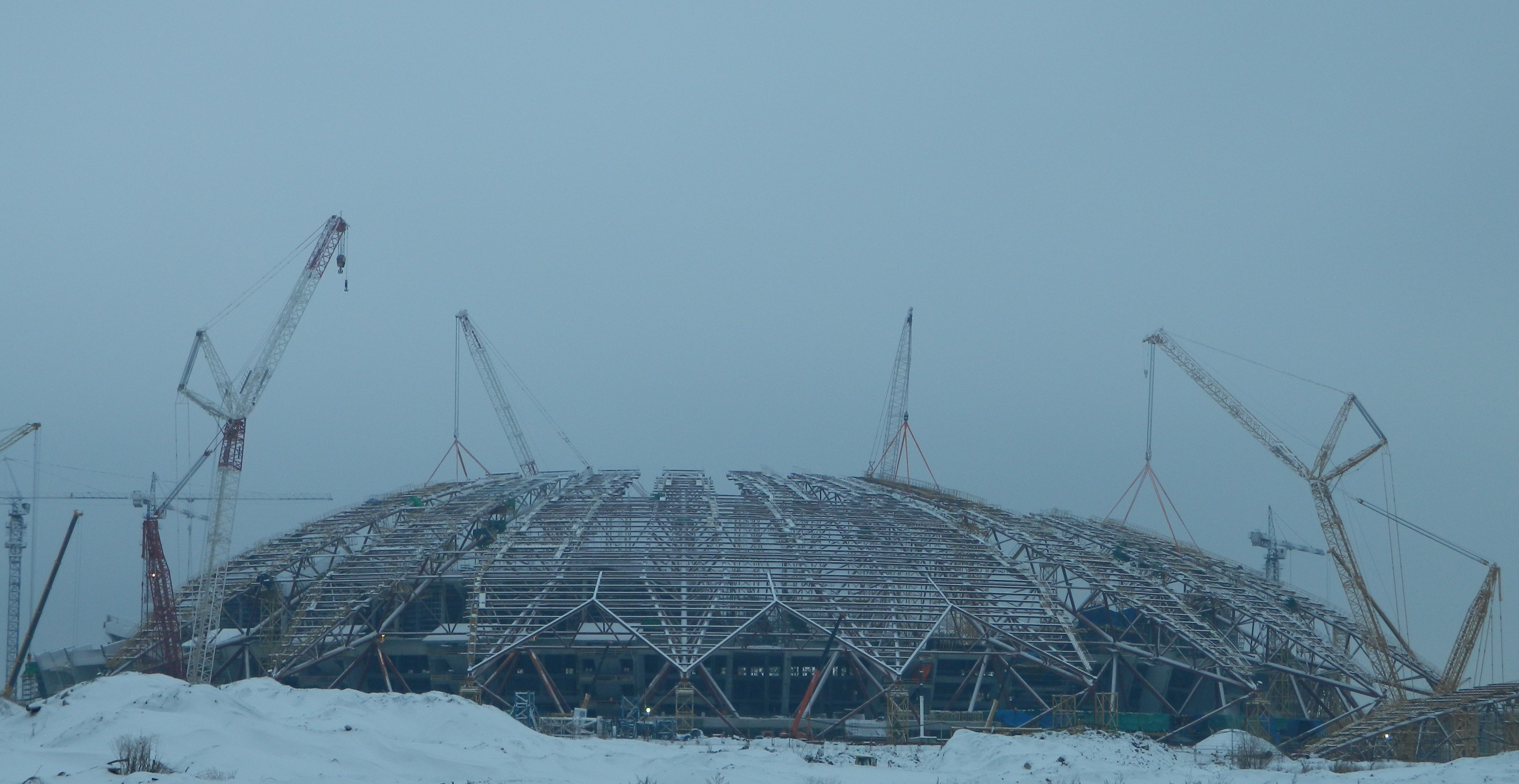 Samara stadium